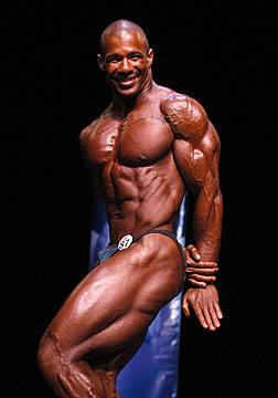 Image of professional bodybuilder posing